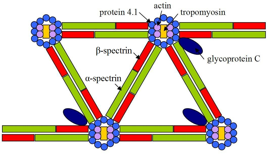 Cytoskeleton_(Elliptocytosis) - I made this diagram myself, I hope it's useful. --Patch 07:11, 26 June 2006 (UTC)